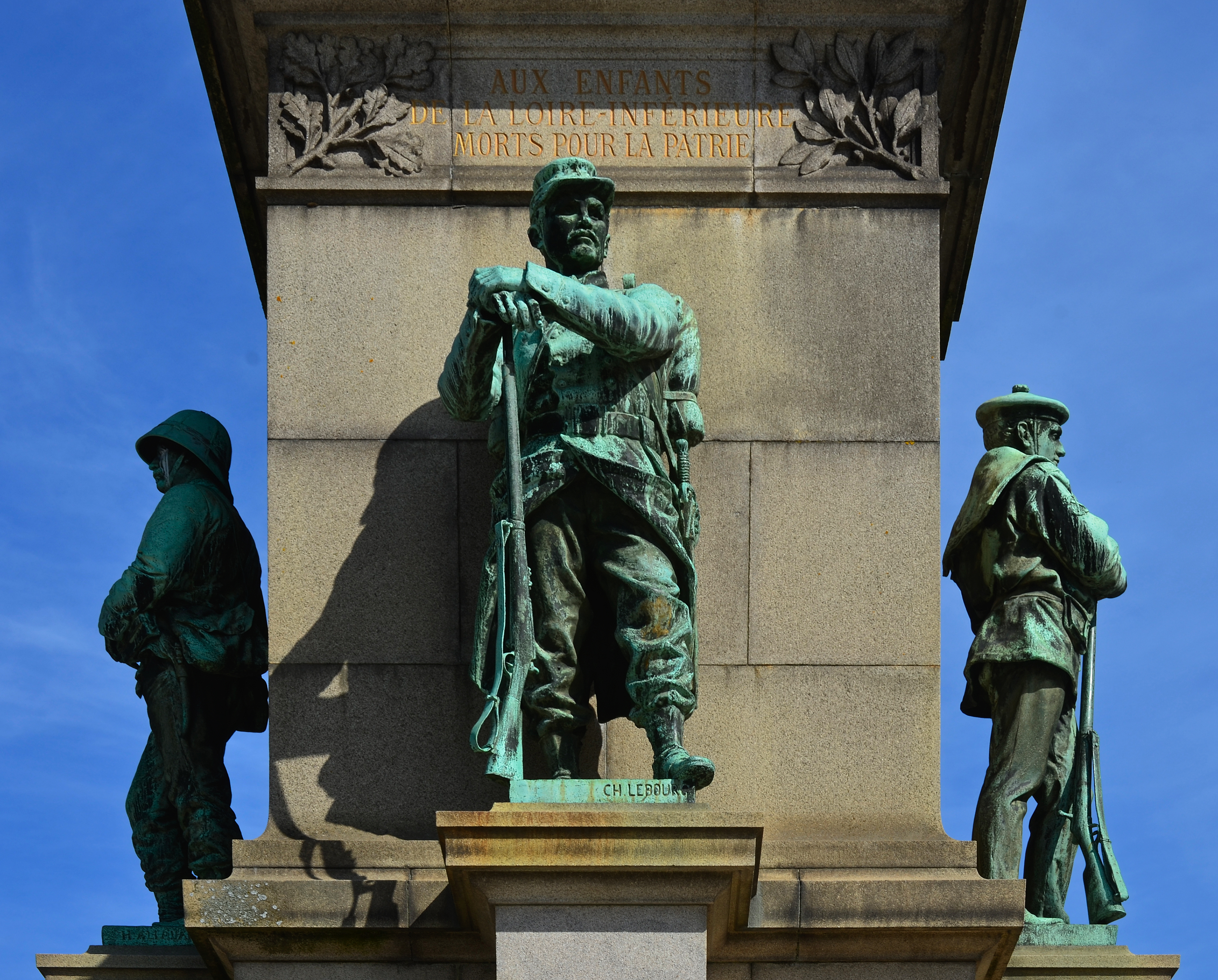 Franco-Prussian War memorial pedestal at the entrance to the Cours Saint-Pierre in Nantes, France